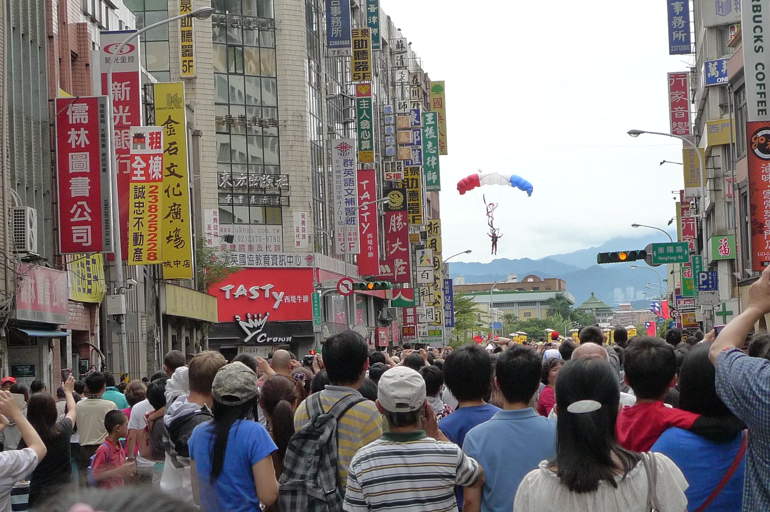 October 10 2011 Taiwan celebrates 100th anniversary'